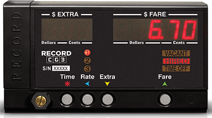 Record Technologies model CG3 Taximeter